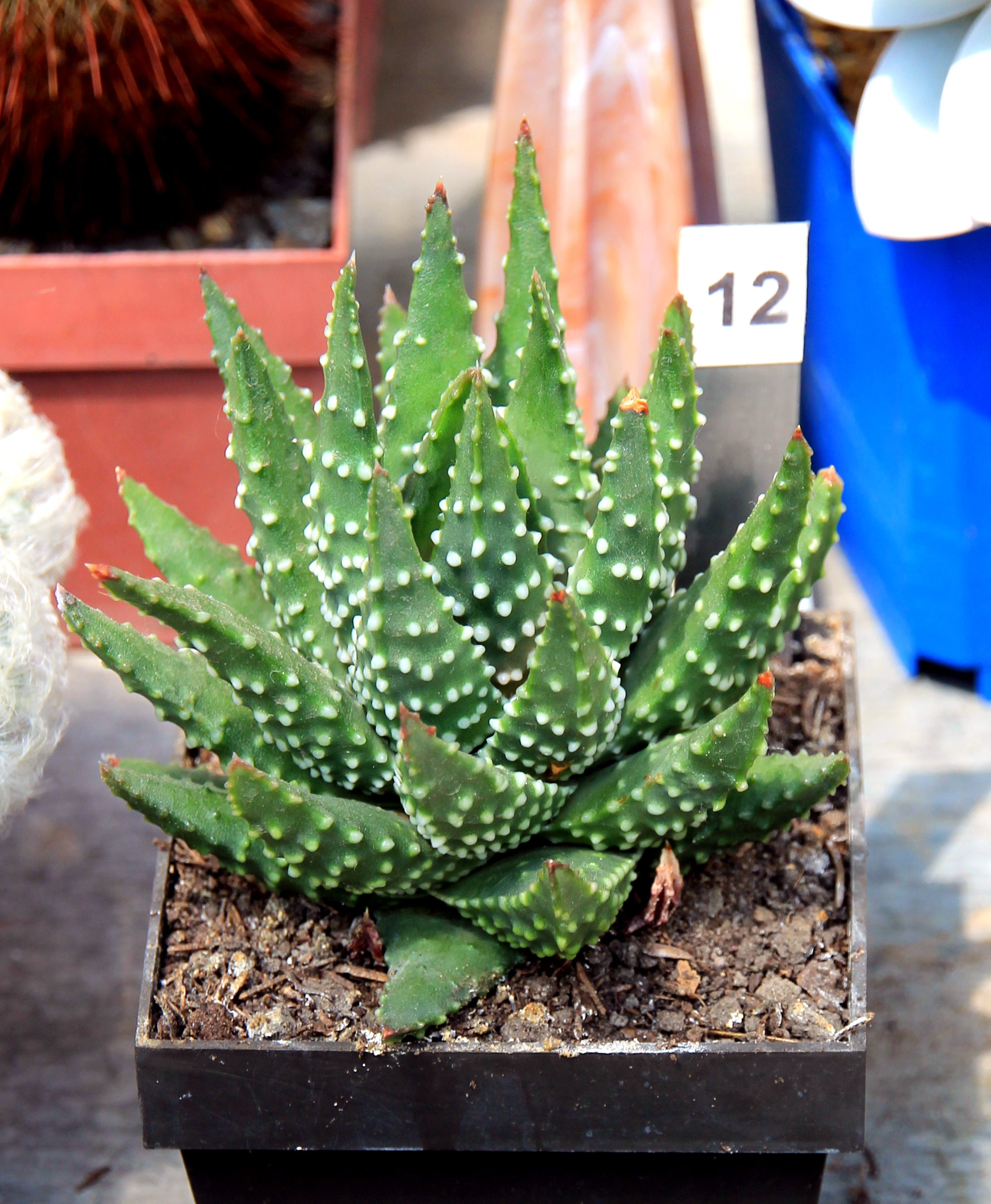 Succulent Haworthia pumila on Exhibition of Cactuses and succulets in the Botanical Gardens of Charles University, 28.05. - 15.06.2016 Prague, Czech Republic